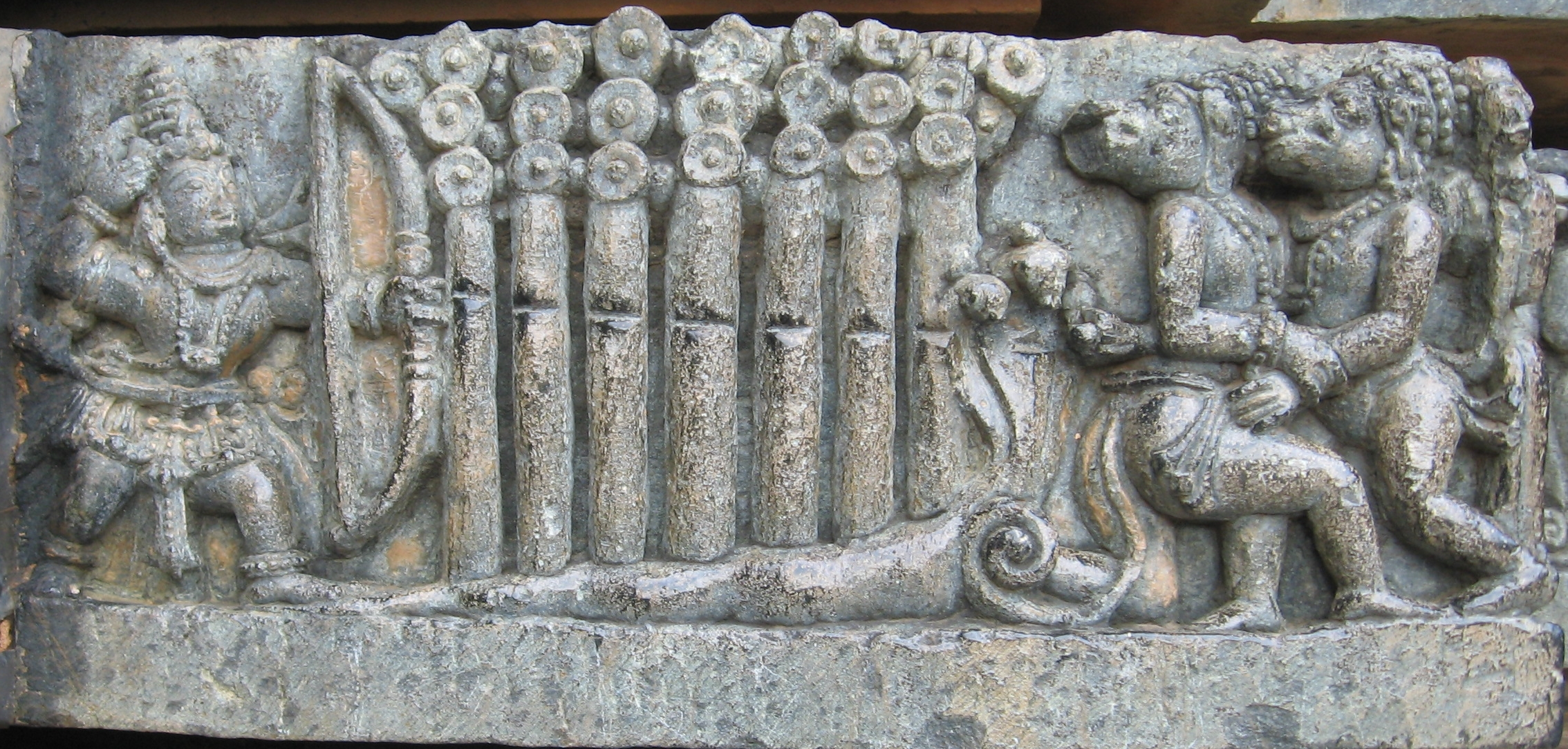 Statue of a scene from Ramayanam Rama Killing vaali at Belur, Karnataka